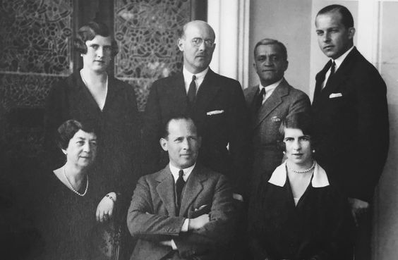 The Greek royal family. King George II of Greece